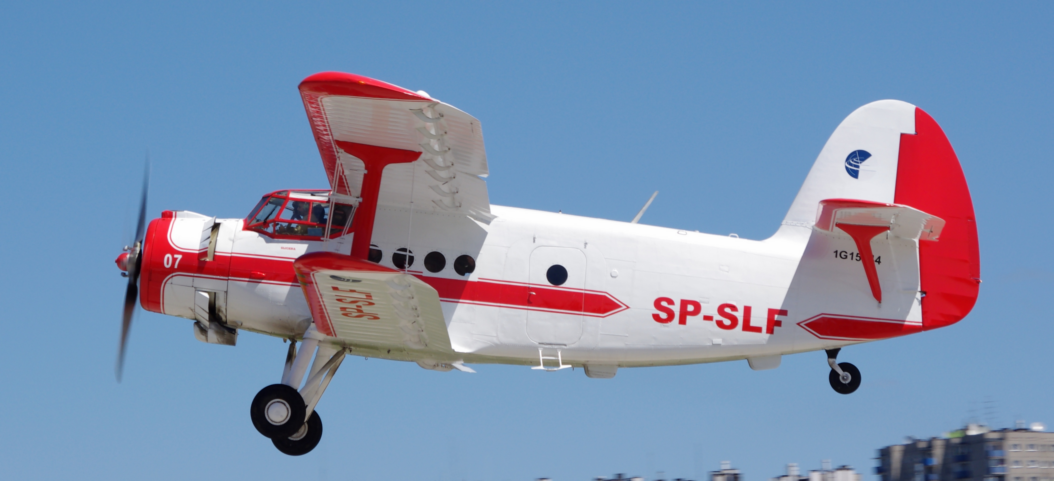 Antonov An-2 at Aircraft Picnic in Kraków